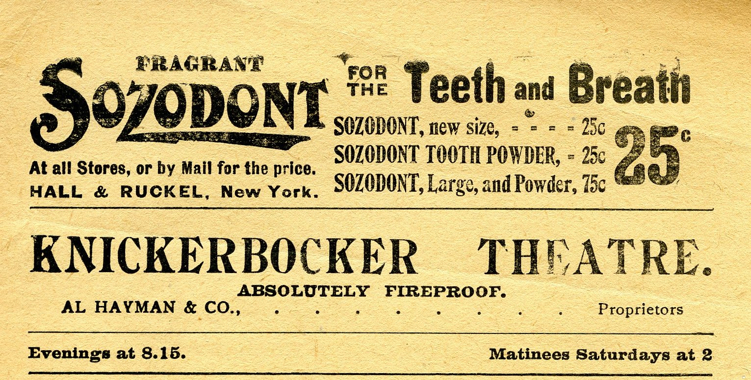 Sozodont advertisement showing price of dental products